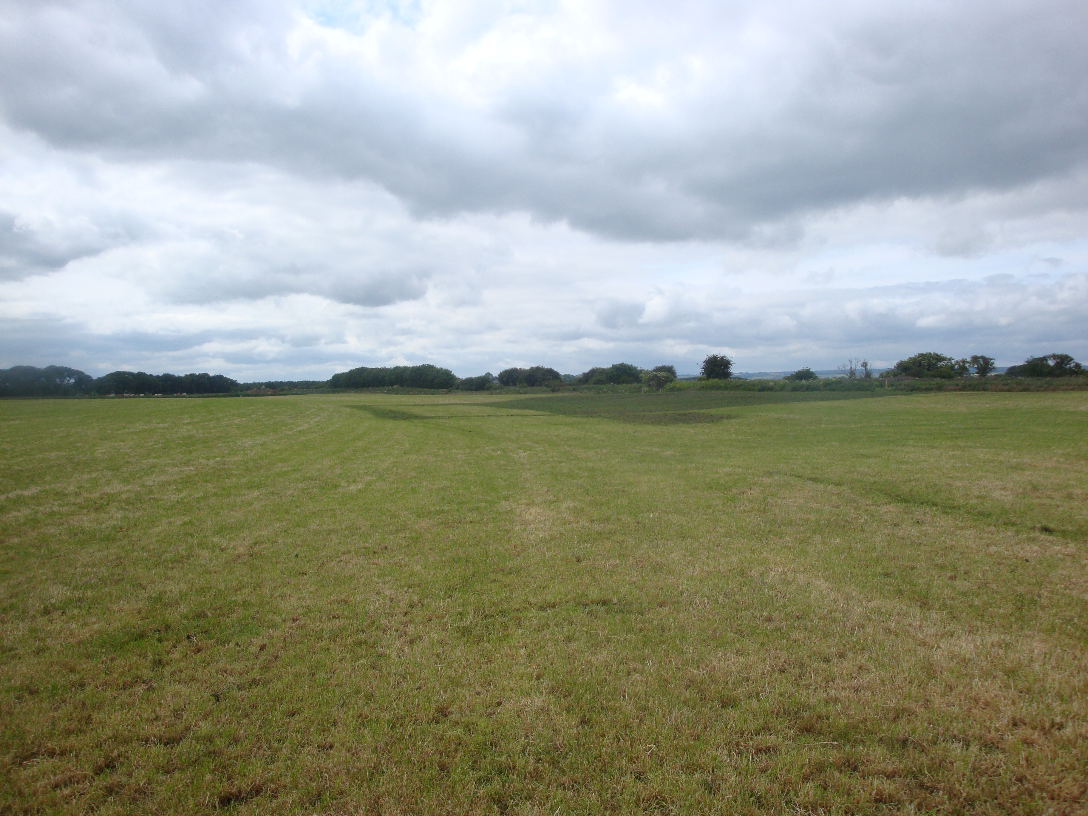 The site of the archaeological excavations at Star Carr. Showing the soil marks of the 2010 excavations.